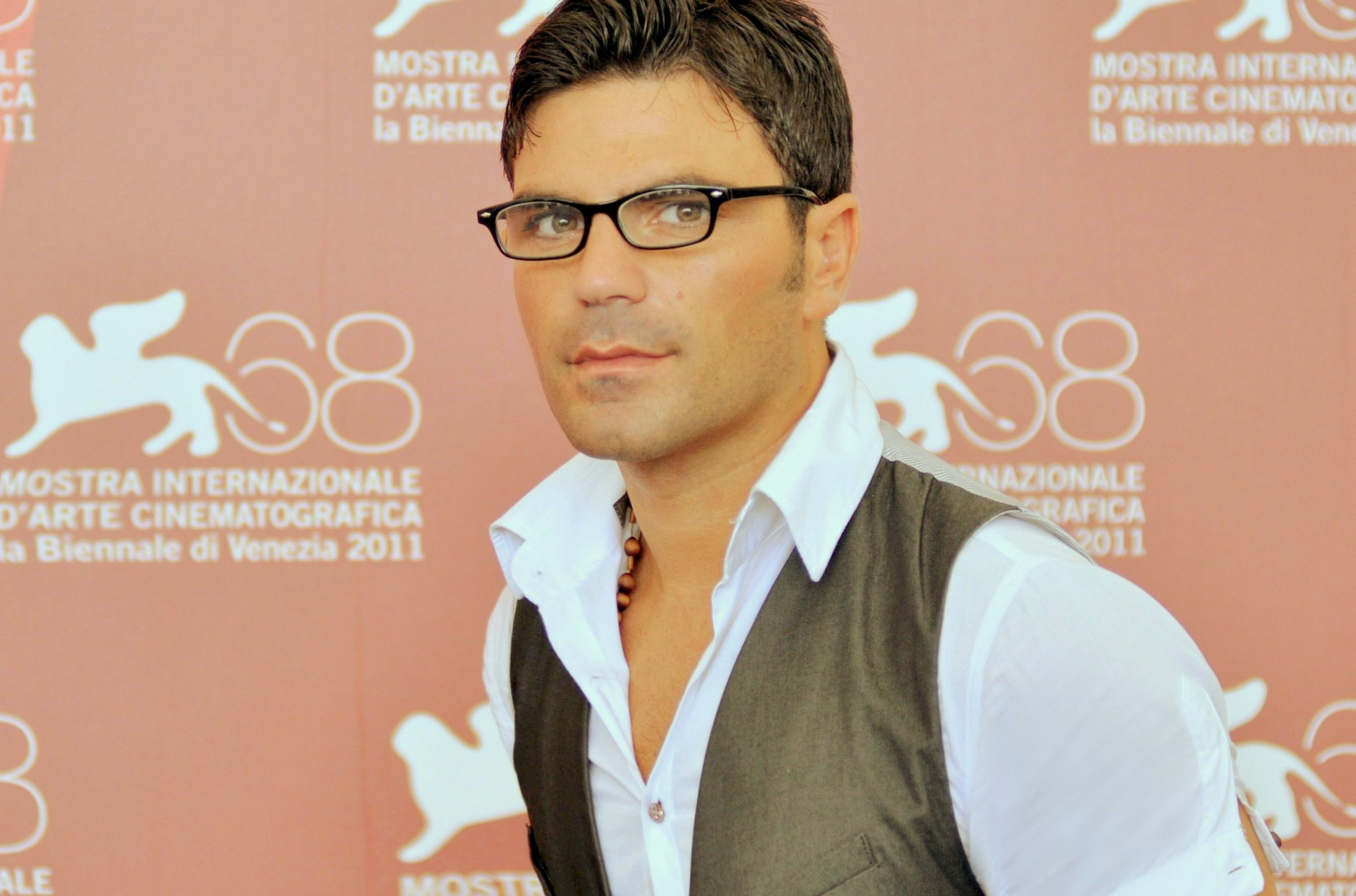 Salvatore Ruocco at the 68ª International Film Festival of Venice